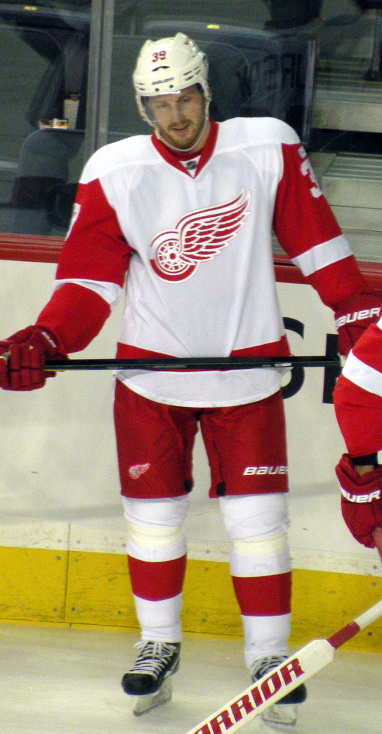 Detroit Red Wings forward Jan Mursak prior to a National Hockey League game against the Calgary Flames.